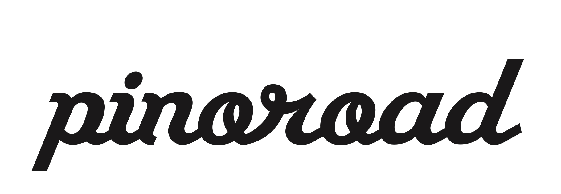 cycling chilean team logo pinoroad